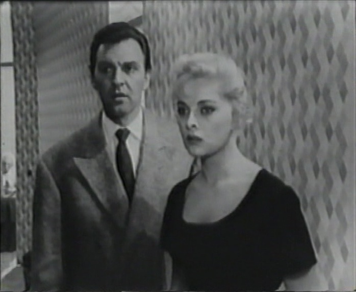 Screenshot from the La donna del giorno film (The Woman of the Day), directed by Francesco Maselli in 1956